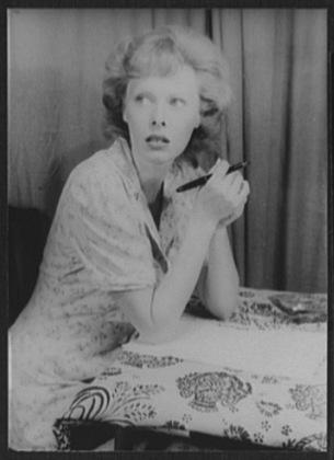 Portrait of Meg Mundy, in the play The Respectful Prostitute by Jean-Paul Sartre. Converted losslessly from .tif to .png Portrait of Meg Mundy, in The Respectful Prostitute